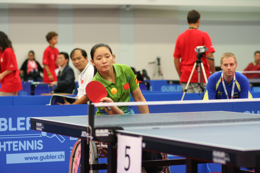 Photo by Gaël Marziou